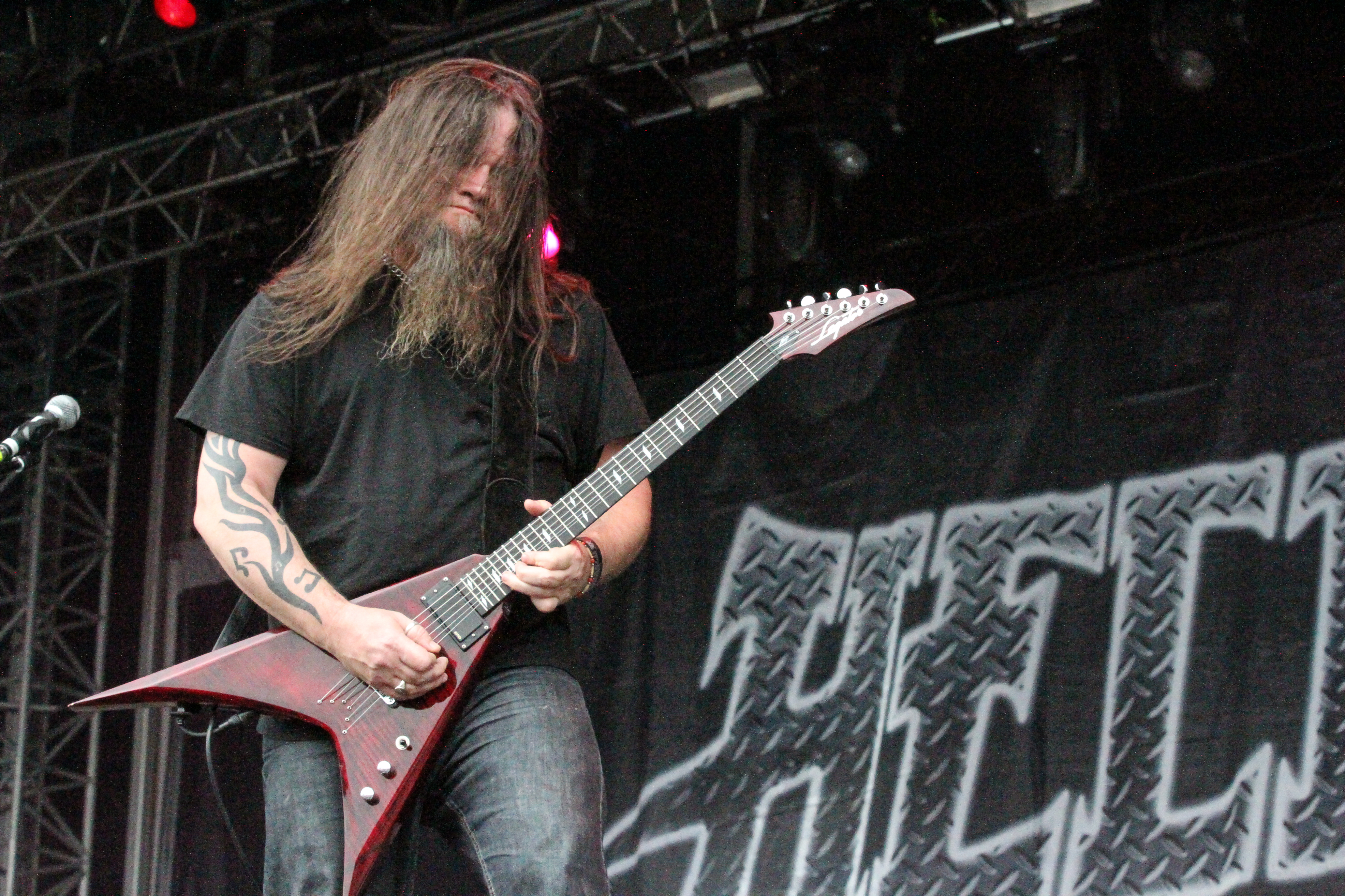 Hellyeah performing at With Full Force Festival 2013